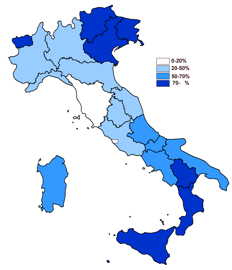 Distribution (in percentage) of current speakers of regional languages (with family) in the different regions of Italy. Survey Doxa 1982 and Coveri (1984).